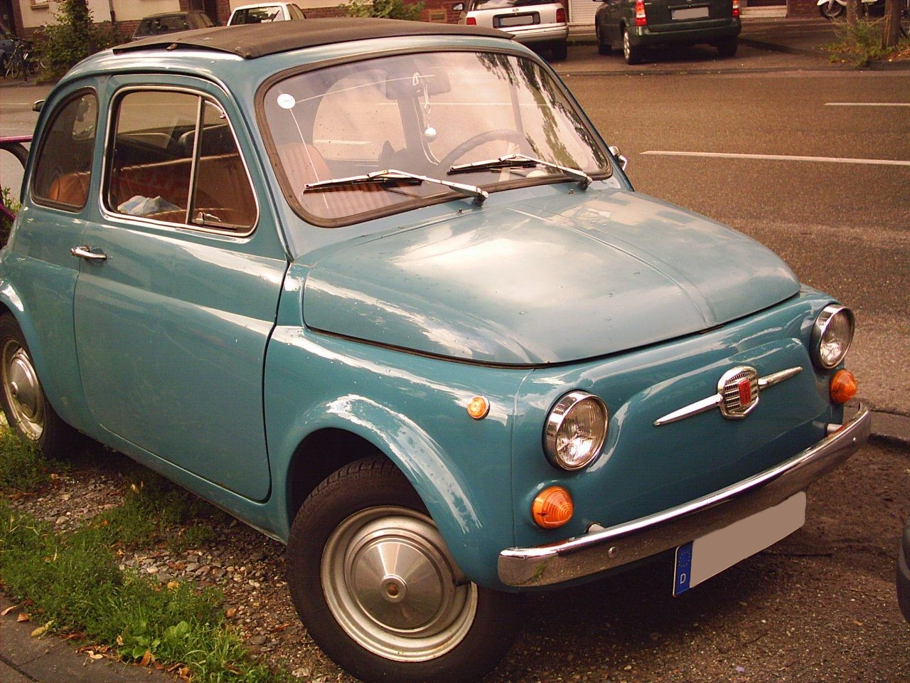 Fiat 500 in Cologne, Germany check usage